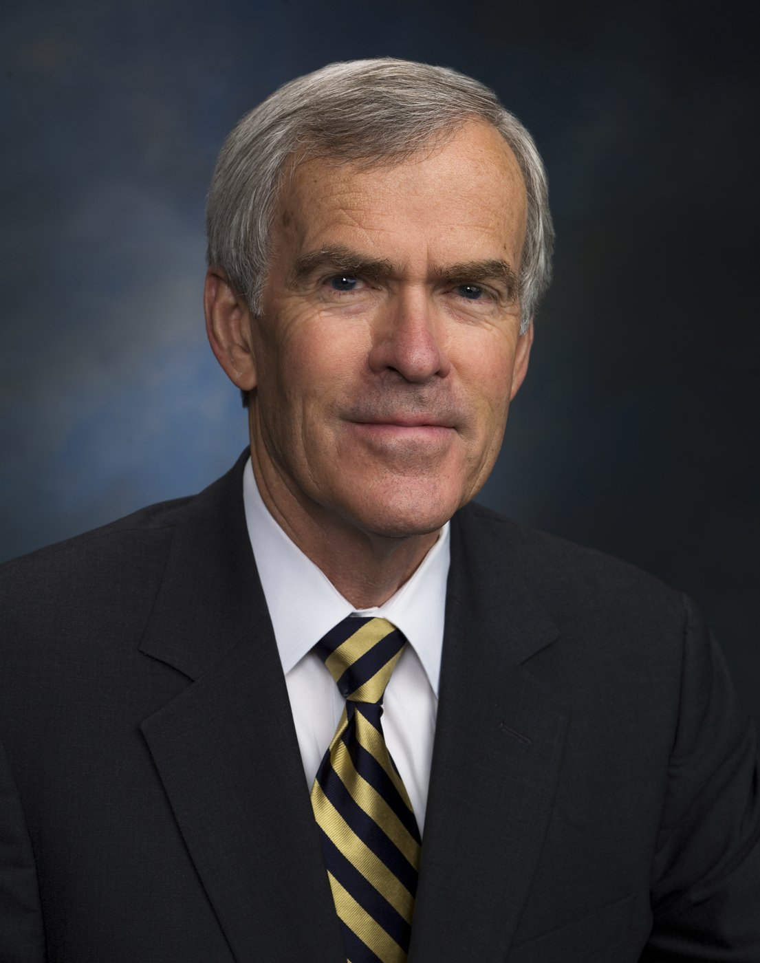 Official Photo of Senator Jesse Francis "Jeff" Bingaman, Jr. taken in September 2008